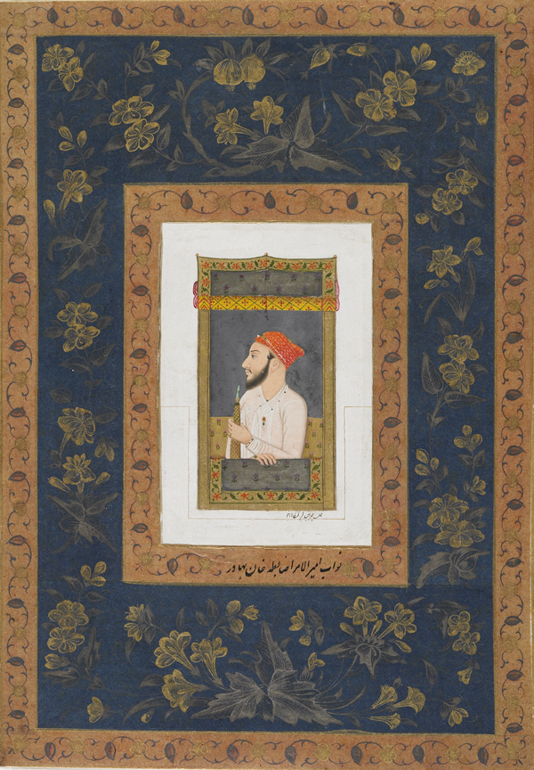 Nawab Amir al-Umara Zabita Khan